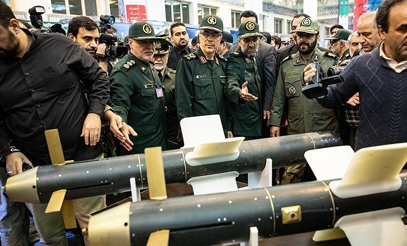 Two Sadid Guided Bombs (AKA Sadid-345) at an Iranian military expo.